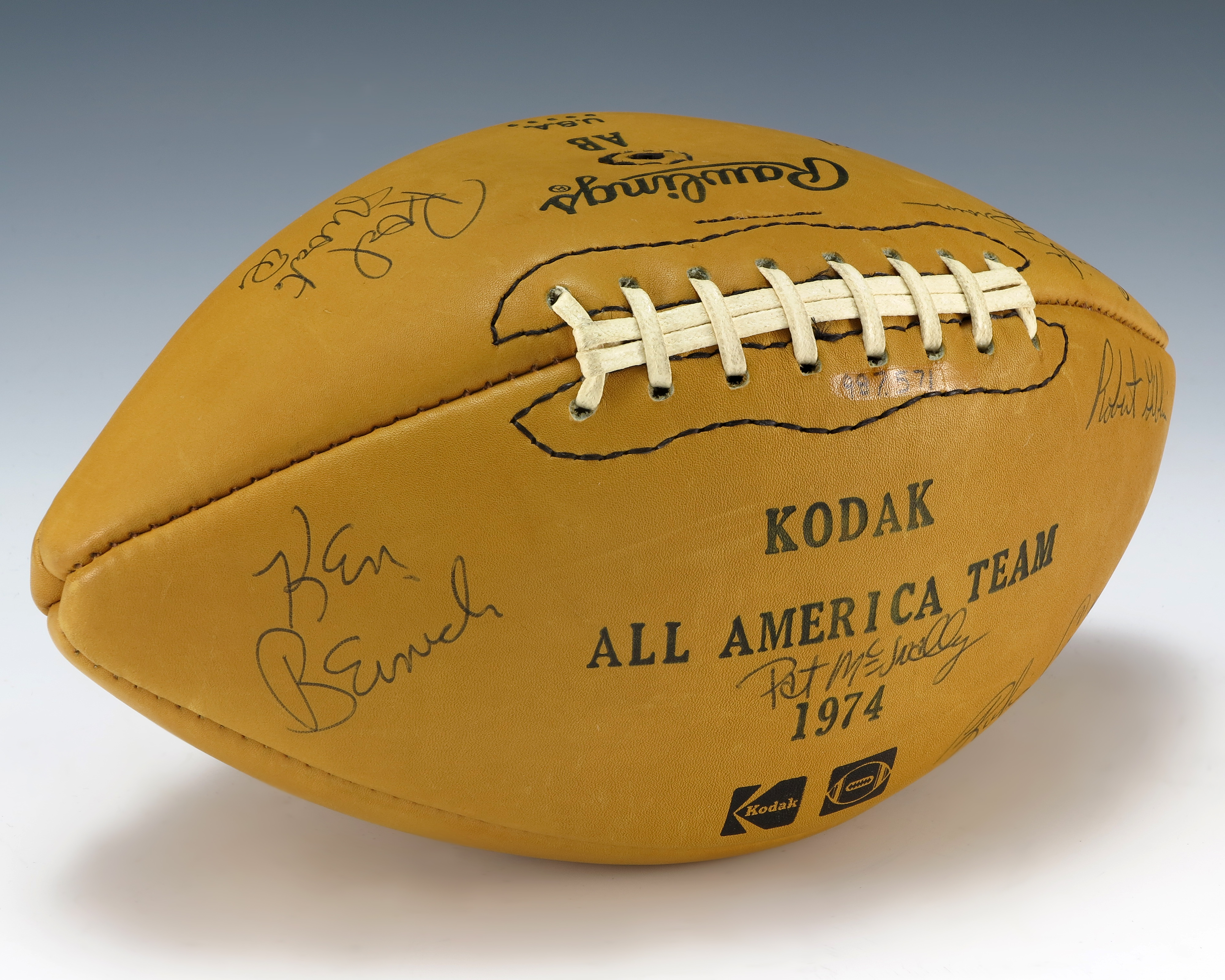 A leather football stamped with the words, "Kodak All American Team 1974." The football also contains the autographs of the All American Football Team players.